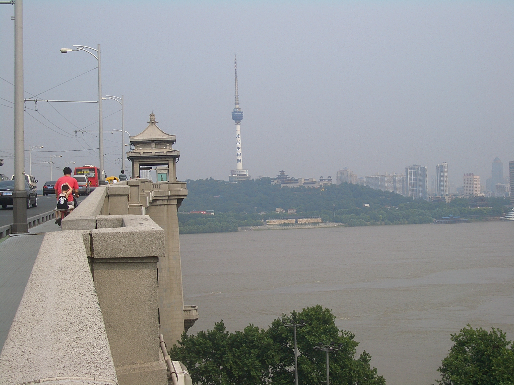 The First Wuhan Yangtze Bridge on Sunday morning, seen from the Wuchang end. Hanyang skyline, with the TV tower, in the background.